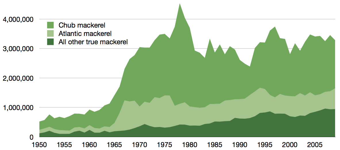 Global capture of true mackerel species in tonnes, 1950–2009. Based on data sourced from FAO Species Fact Sheets.